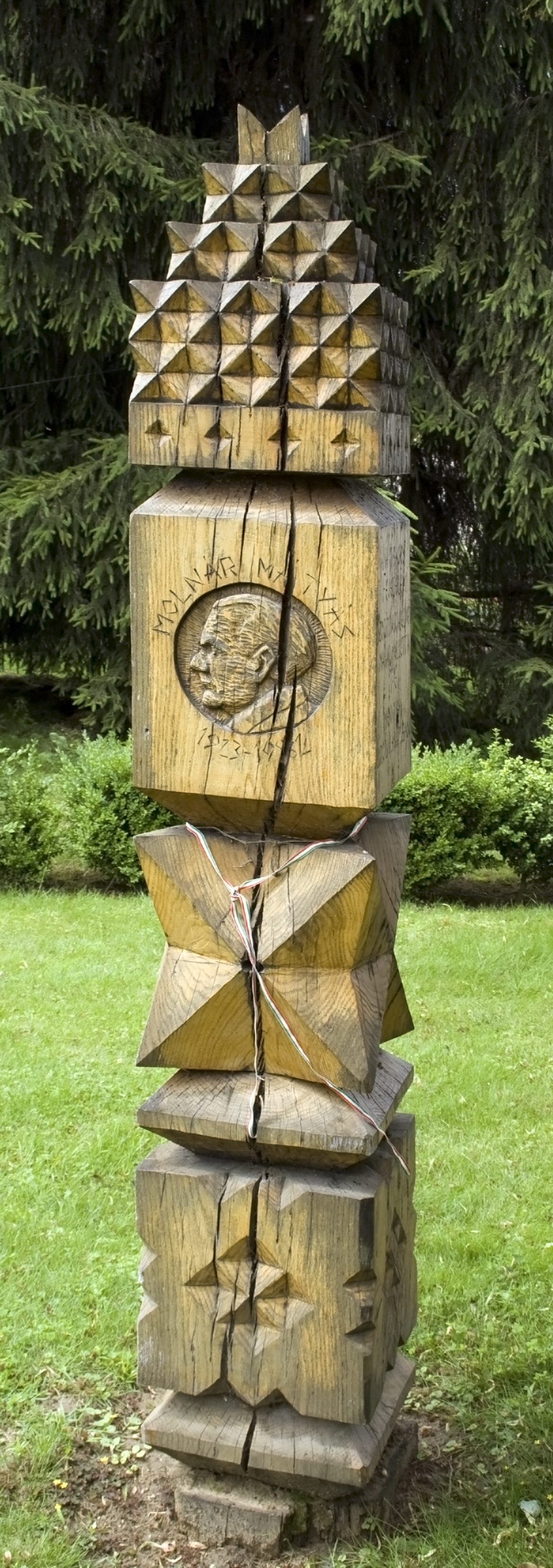 Relief of Mátyás Molnár in the park of the Vaja Castle, Hungary – by Béla Fehérváry